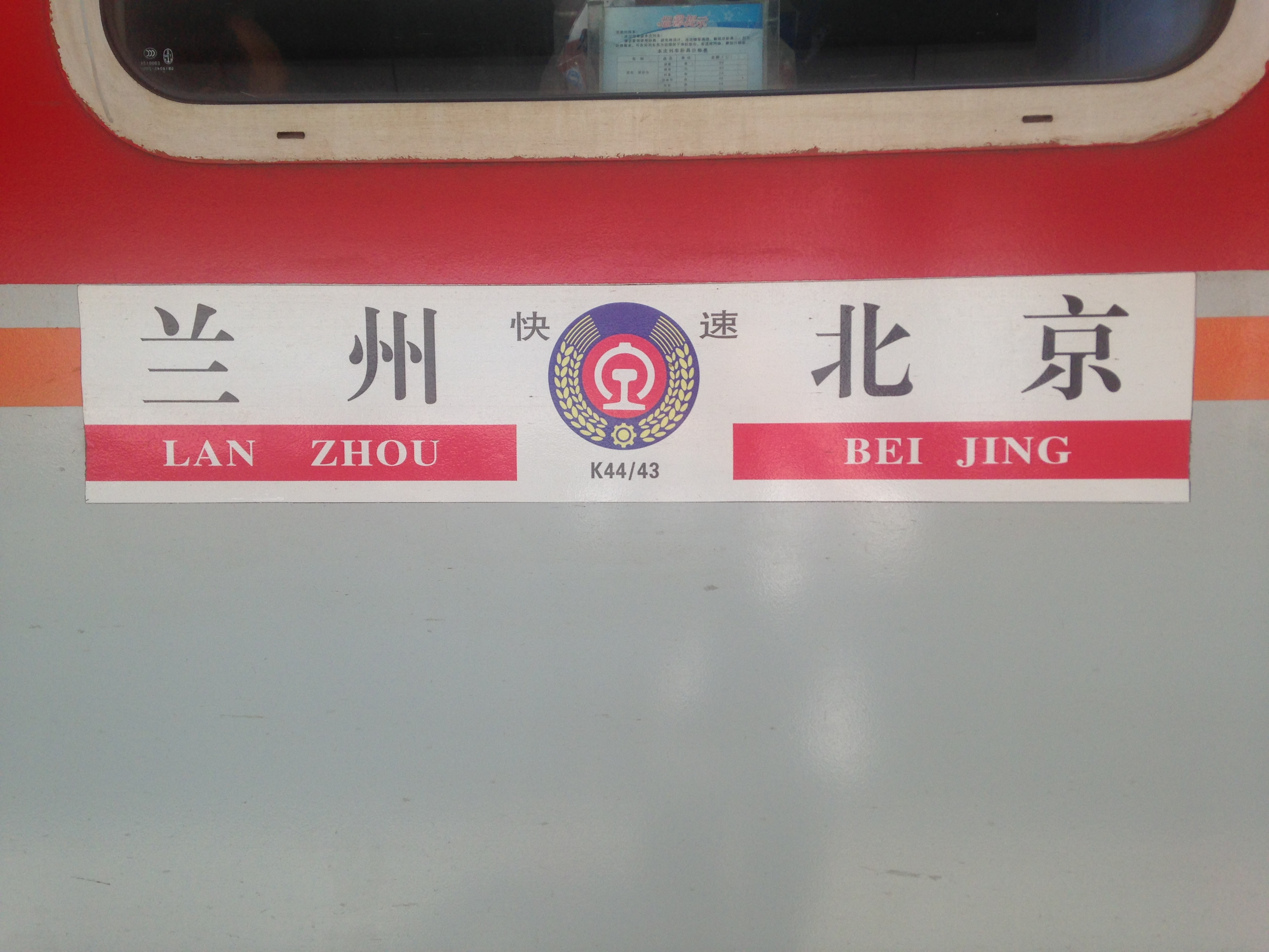 Information boards on trains in China